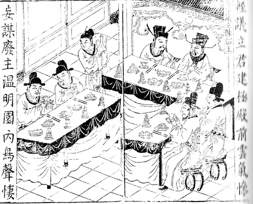 A Qing Dynasty illustration depicting the meeting where Dong Zhuo announced he wanted to depose the emperor